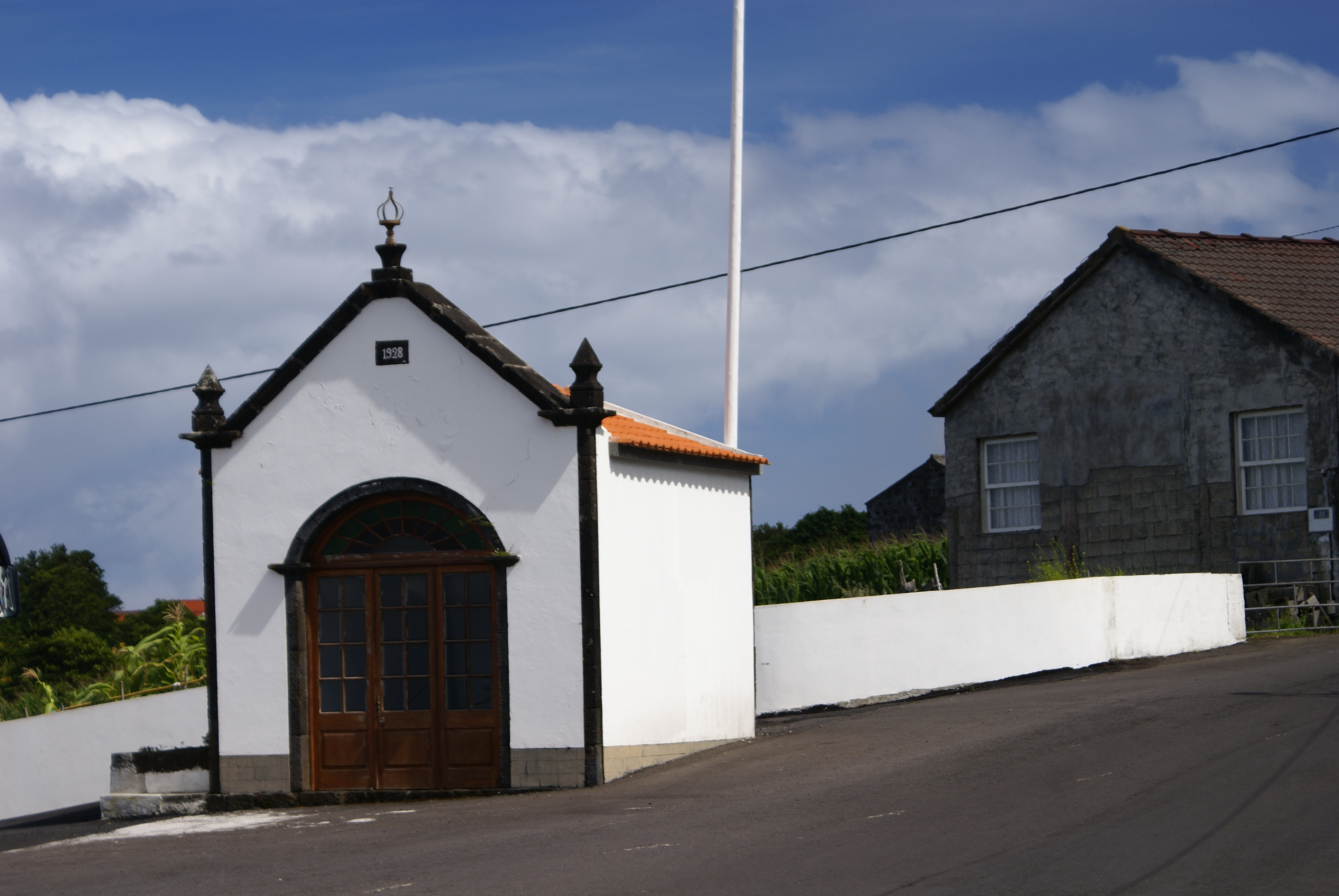 Império do Espírito Santo in Ribeirinha, municipality of Lajes do Pico, island of Pico, Azores (Portugal)